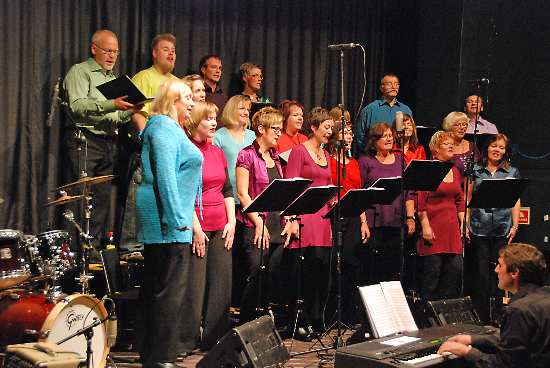 Onoy-Luroy sangkor performing in Sandnessjoen, Norway